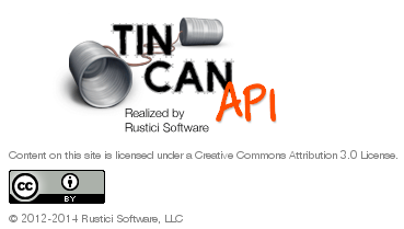 Tin Can Api Logo